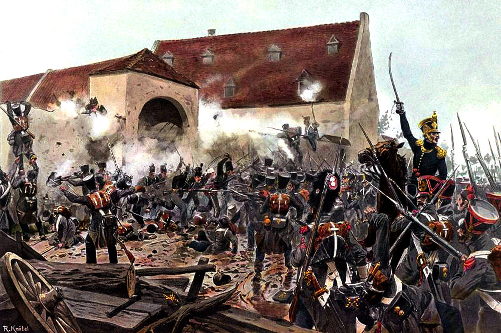 The storming of La Haye Sainte, the crucial position at the centre of Wellington's position at the battle of Waterloo.